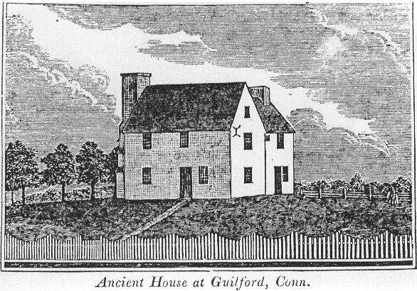 This is my copy of an image of the Henry Whitfield House (1639) from an 1836 publication, accessible here: [1]